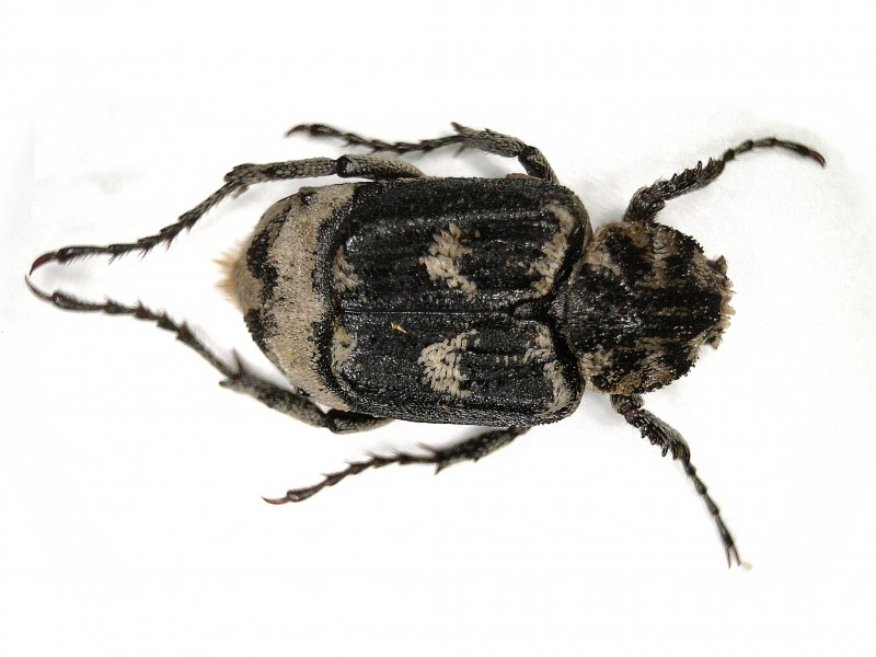 Valgus hemipterus (Scarabaeidae) - (imago), Elst (Gld) - De Park, the Netherlands